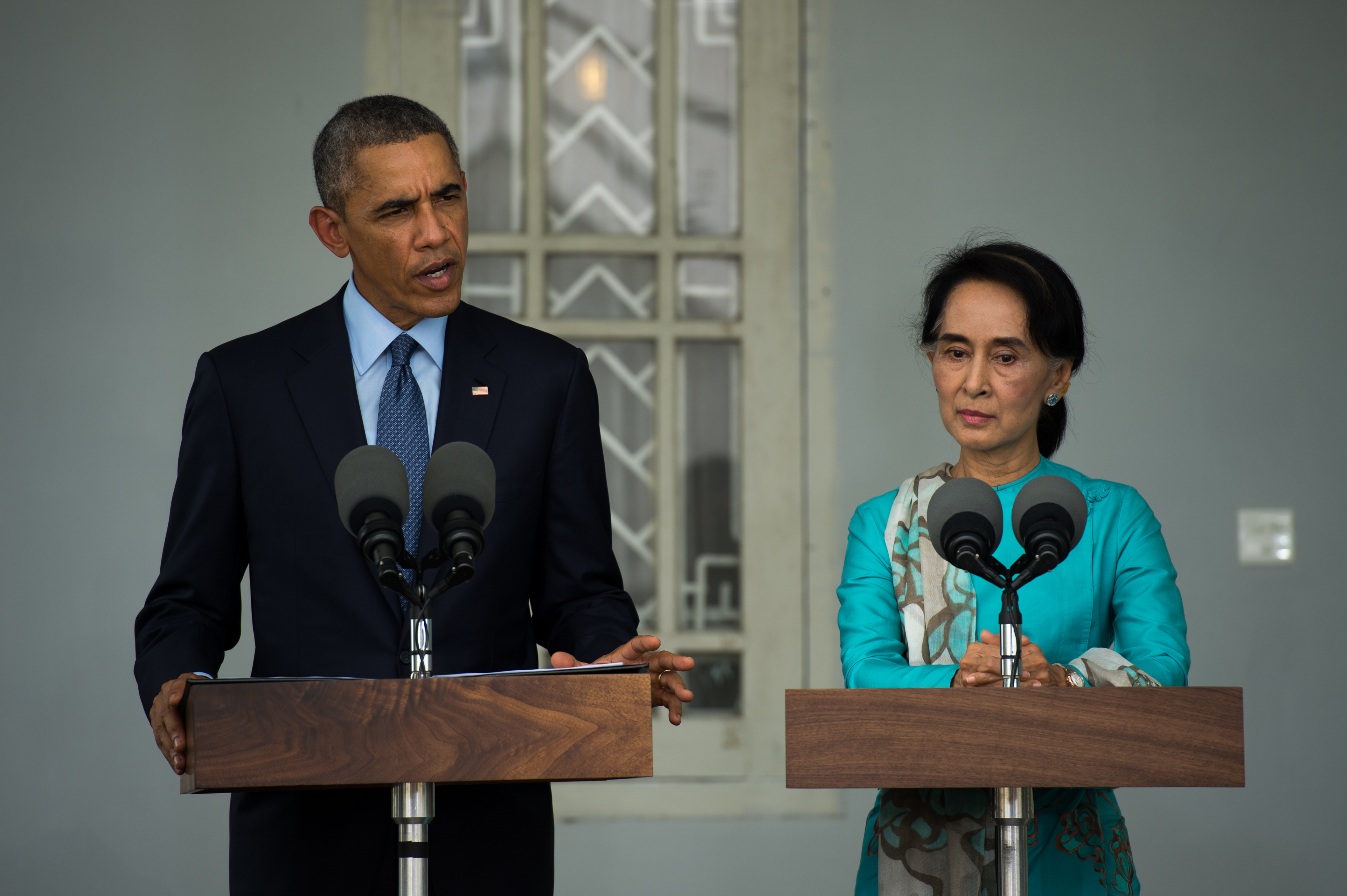 RANGOON, Burma (November 14, 2014) President Barack Obama, with Chairperson of the National League for Democracy and Member of Parliament Aung San Suu Kyi, addresses the international media. [State Department photo by William Ng/Public Domain]